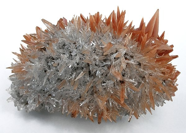 Calcite Locality: Mine No. 884, Leiping, Guiyang County, Chenzhou Prefecture, Hunan Province, China (Locality at ) Size: 8.3 x 5.4 x 4.3 cm. From what has to be the most famous single calcite find of the modern era in China, these sharp crystals came out around 2000. Amongst the razor-sharp spikes, sits a pristine, jewel-like, sharp twinned calcite measuring 2 cm from tip-to-tip across the width atop. Though more spiky-growth calcites have come out since, these twinned crystals remain one-of-a-kind and uniquely desirable. This specimen is sharp all around. The slight hematite staining gives a red tint to some crystals and contrasts the curving top of the piece with the calcites of the main body. This specimen is very 3-dimensional. Ex. Dr. Stephen Smale Collection.